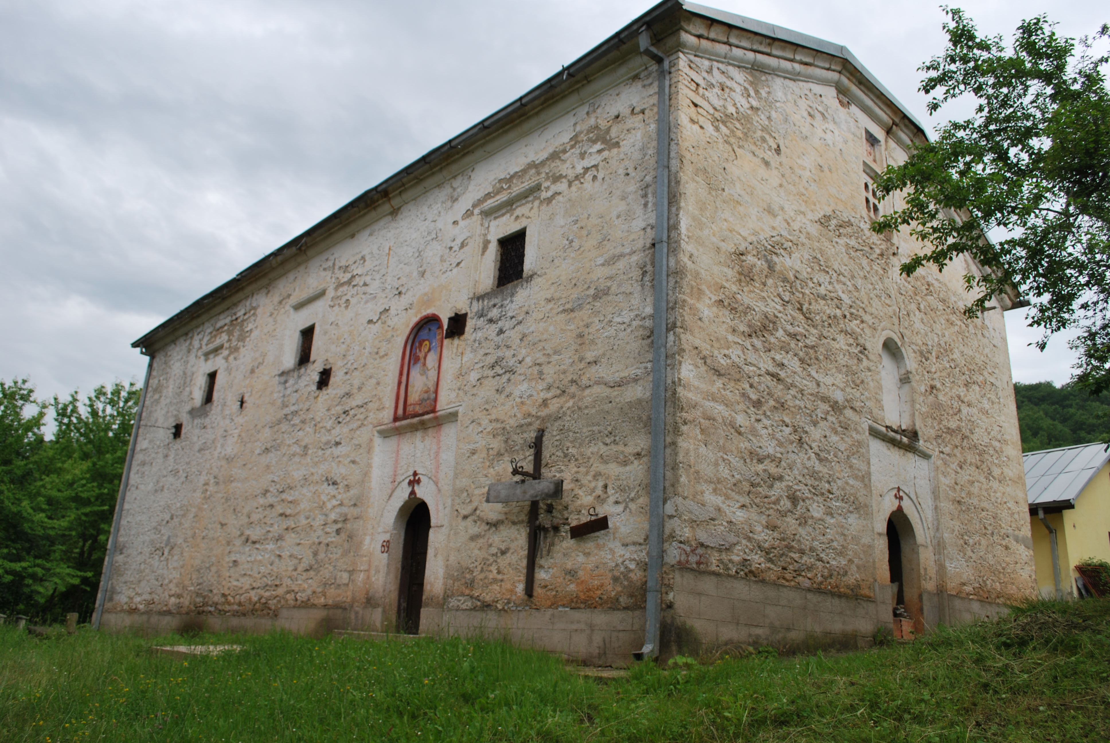 St. George's Church in Belica, Macedonia